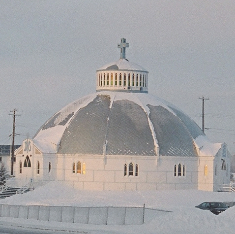 Our Lady of Victory Church in Inuvik, NWT; Senwung Luk